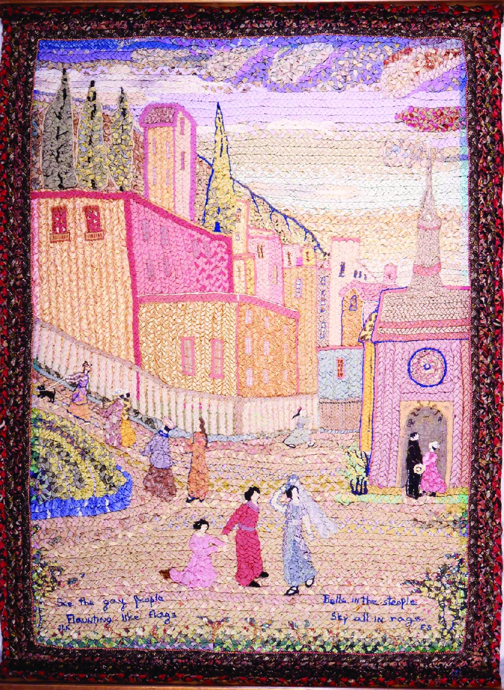 Street Scene is a braided tapestry created by artist Jessie Catherine Kinsley. It is in the Oneida Community Mansion House collection